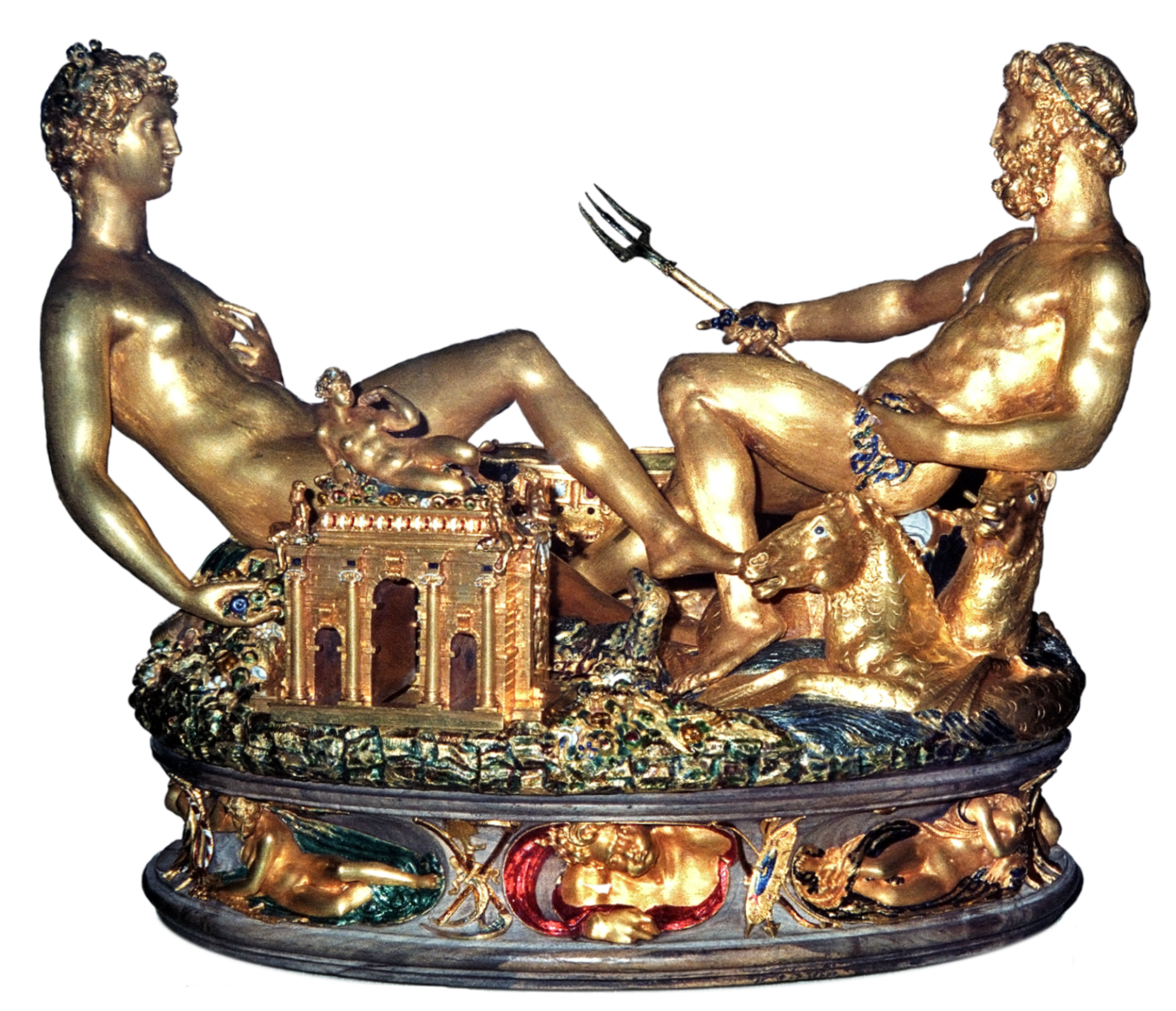 Saltcellar, called the "Saliera", made 1540-1543 in Paris. Gold, covered in part by enamel; base: ebony.